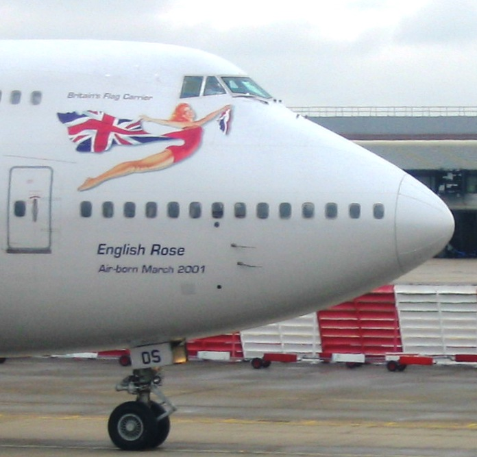 Virgin Atlantic Boeing 747 photographed at Gatwick Airport. Nose art on G-VROS "English Rose"